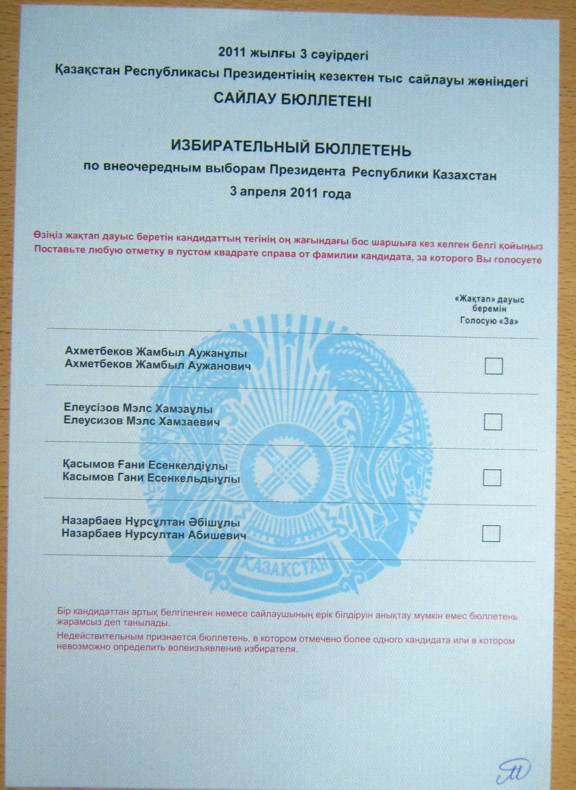 The voting ballot for 2011 Kazakhstan Presidential Election